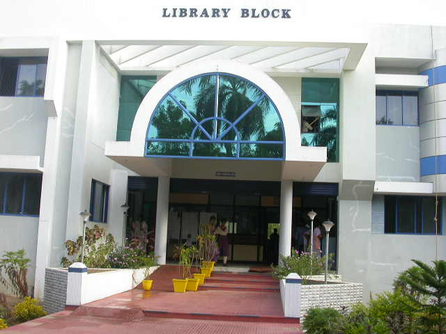 A.V.C. College